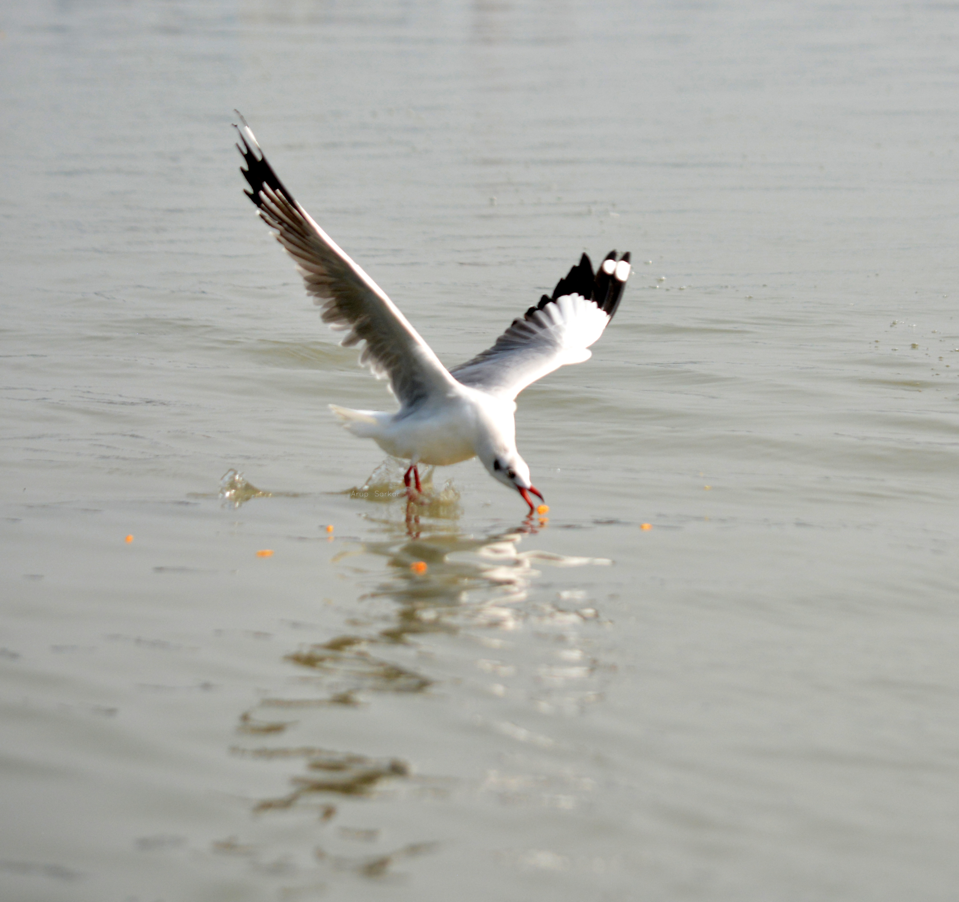 A Brown-headed Gull (Chroicocephalus brunnicephalus) at the bird feeding point, Chilika, Odisha, India